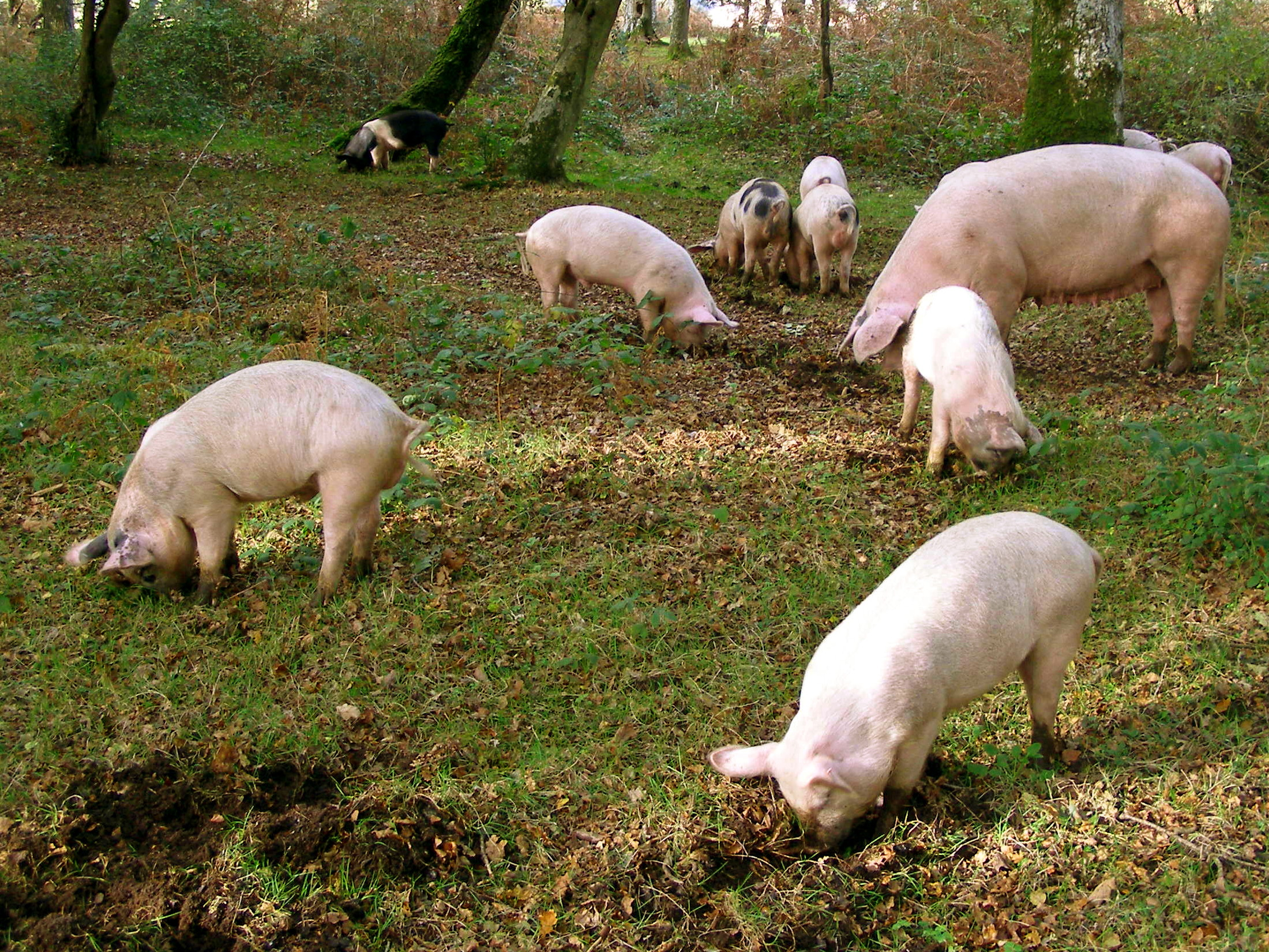 Sow and her piglets in woodland alongside Ober Water, New Forest